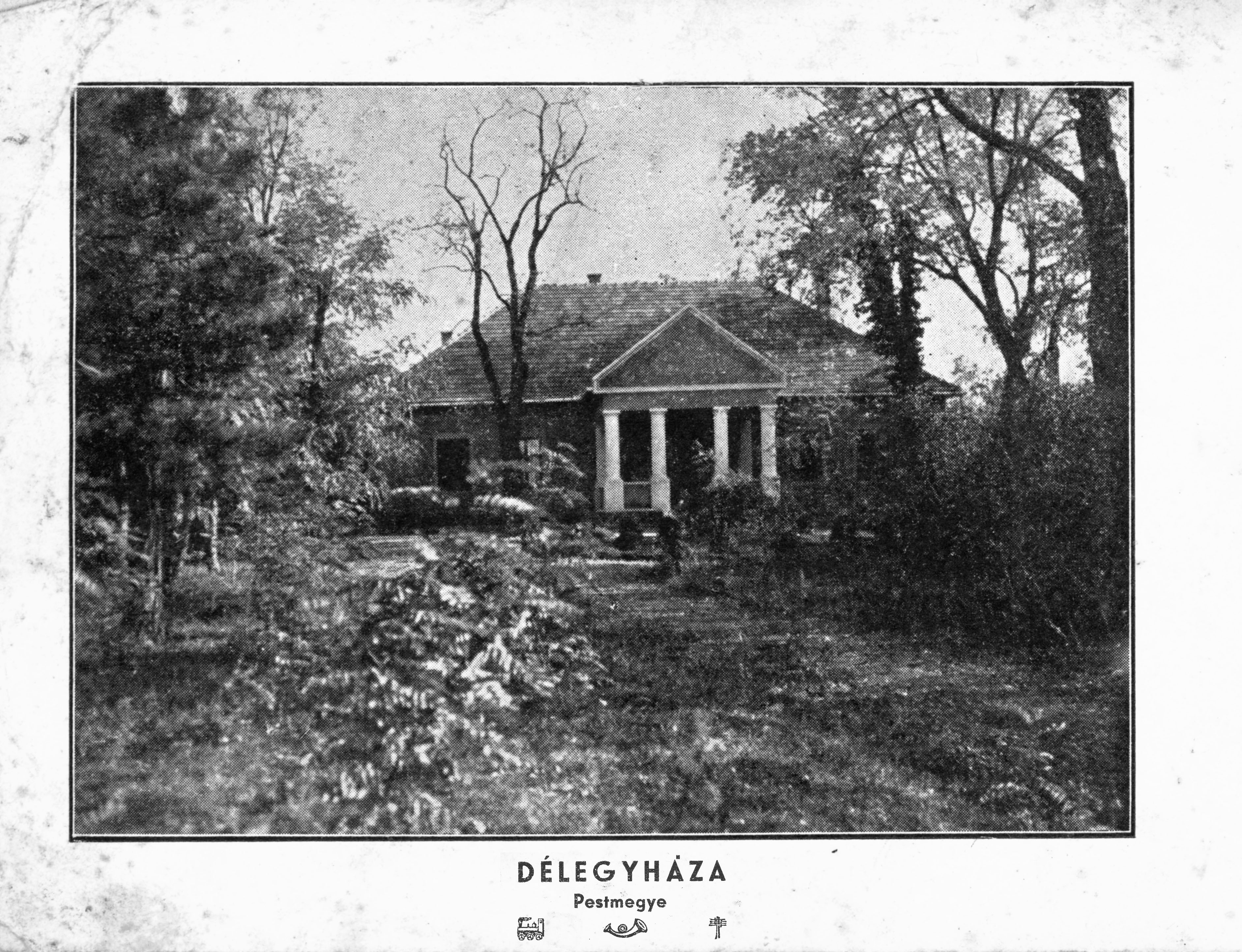 Délegyháza (Hungary). 1932. Postcard.